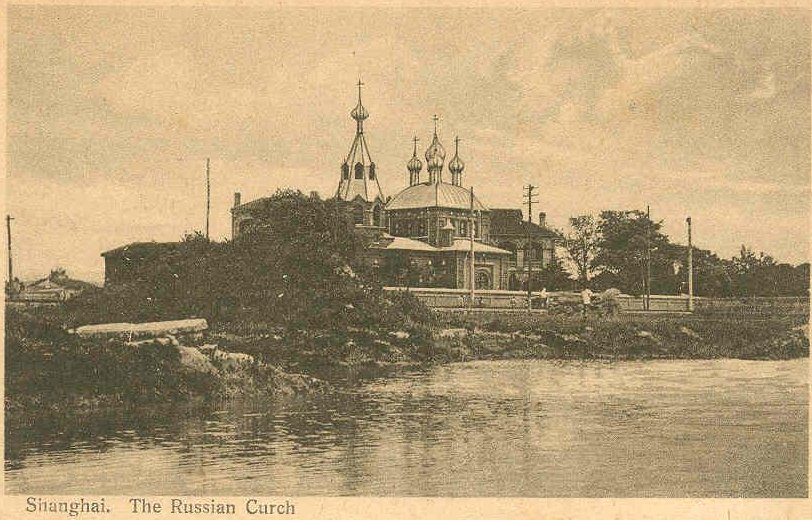 Theophany Orthodox church in Shanghai